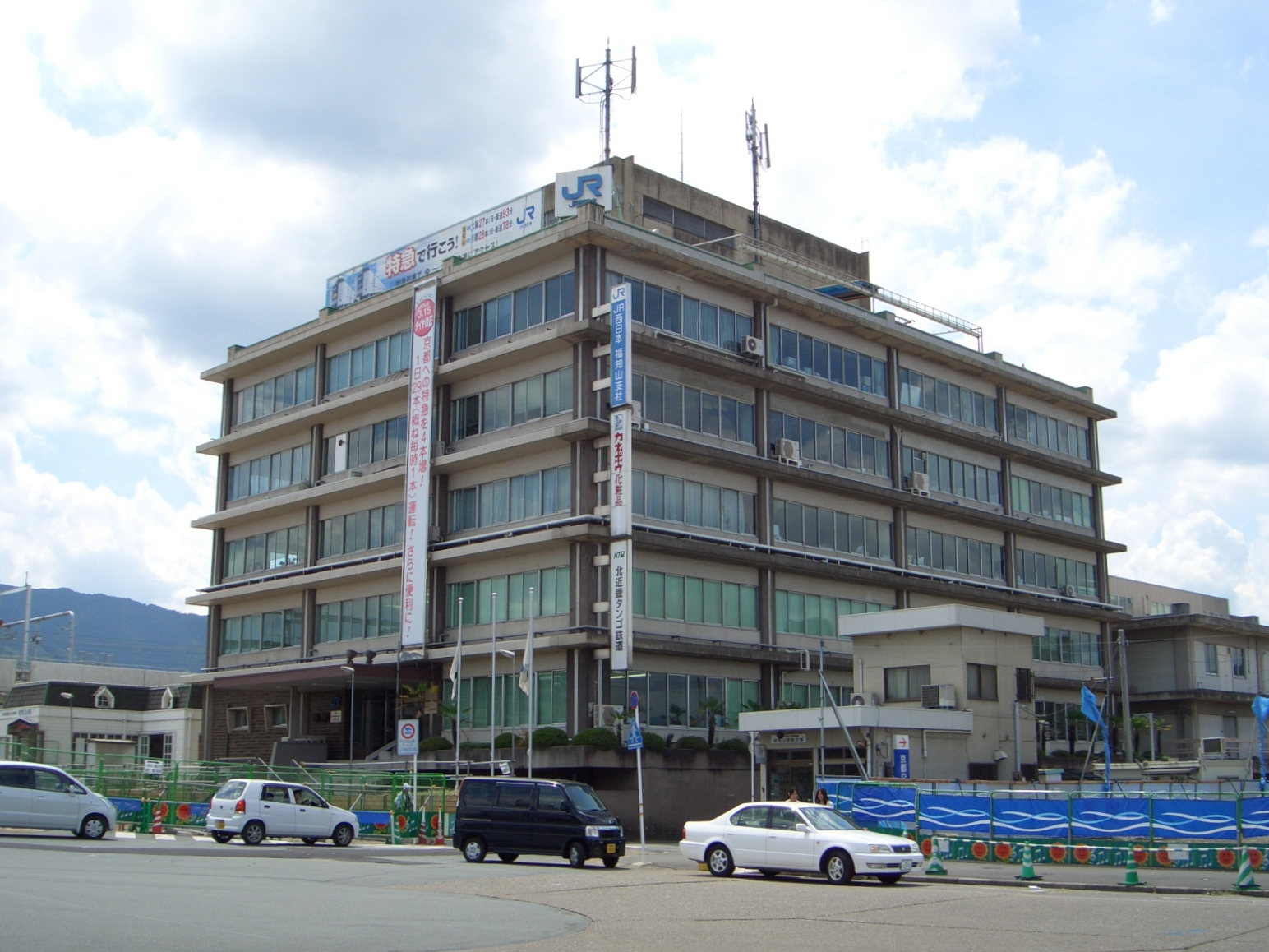 JR West Fukuchiyama Branch